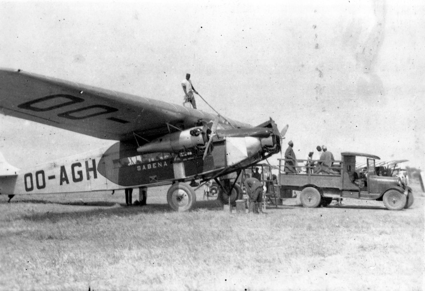 Image from an Album belonging to Harry White, 1919-1947, documenting his career as a Naval Aviator. SOURCE INSTITUTION: San Diego Air and Space Museum Archive